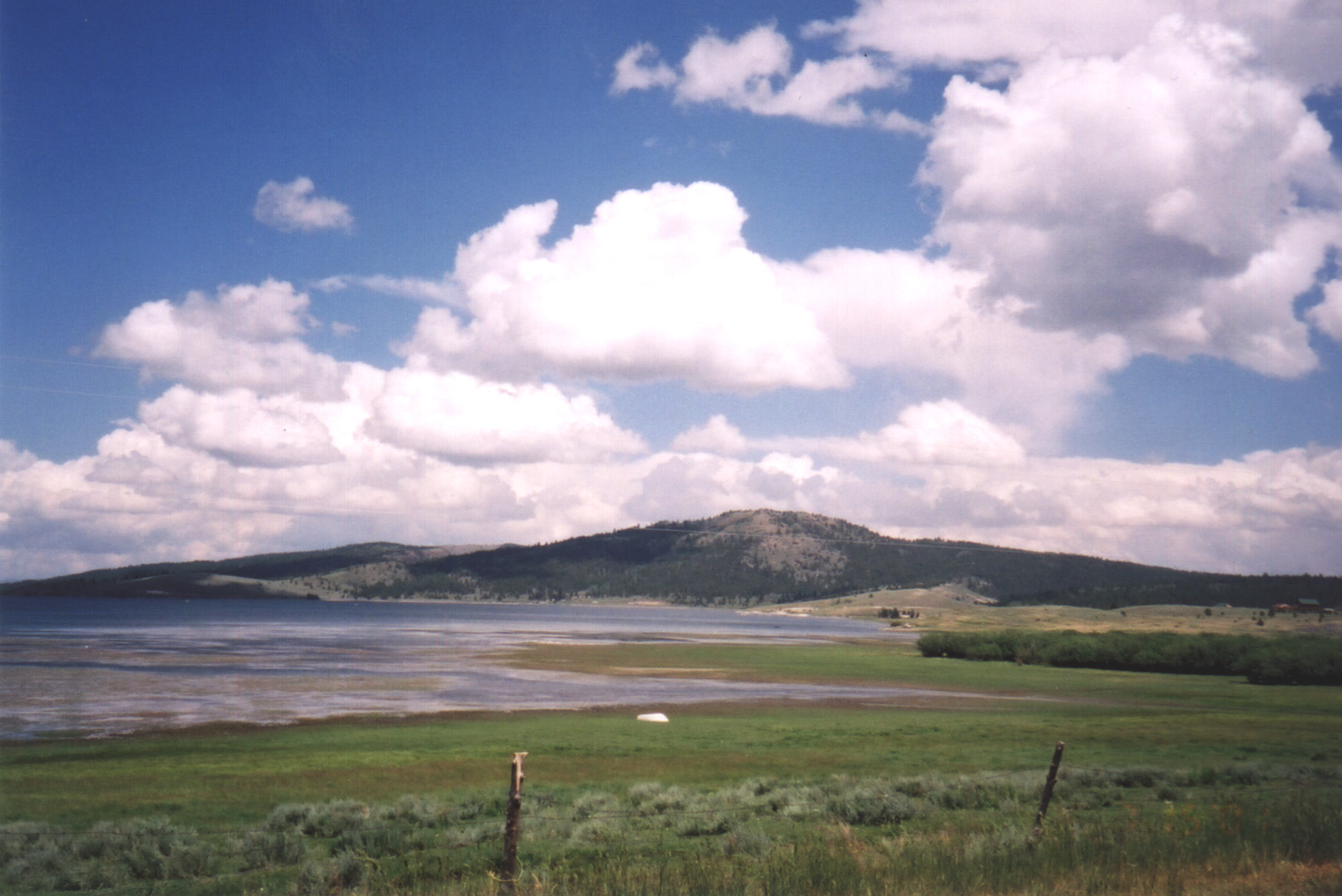 The peak of Copper Knoll rises over the eastern end of Panguitch Lake.